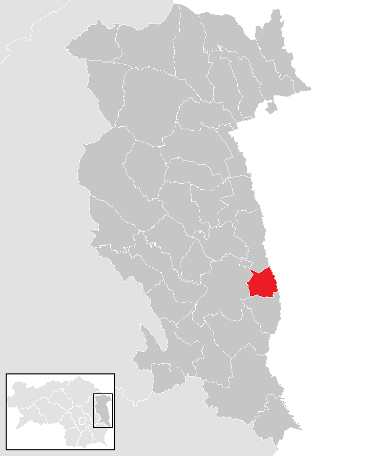 district Hartberg-Fürstenfeld